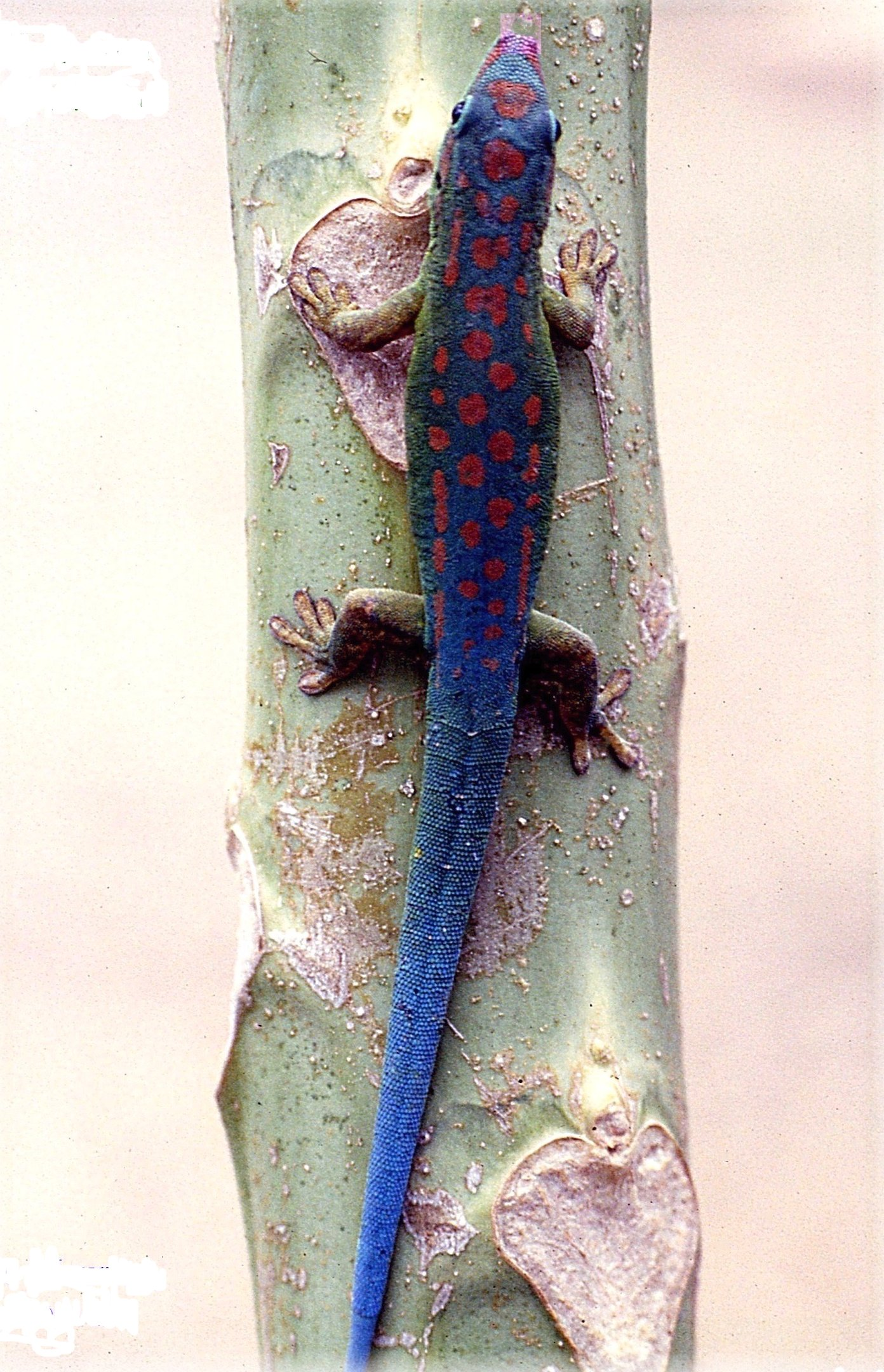 Blue tailed Day Gekko (Phelsuma cepediana), Senneville, south Mauritius